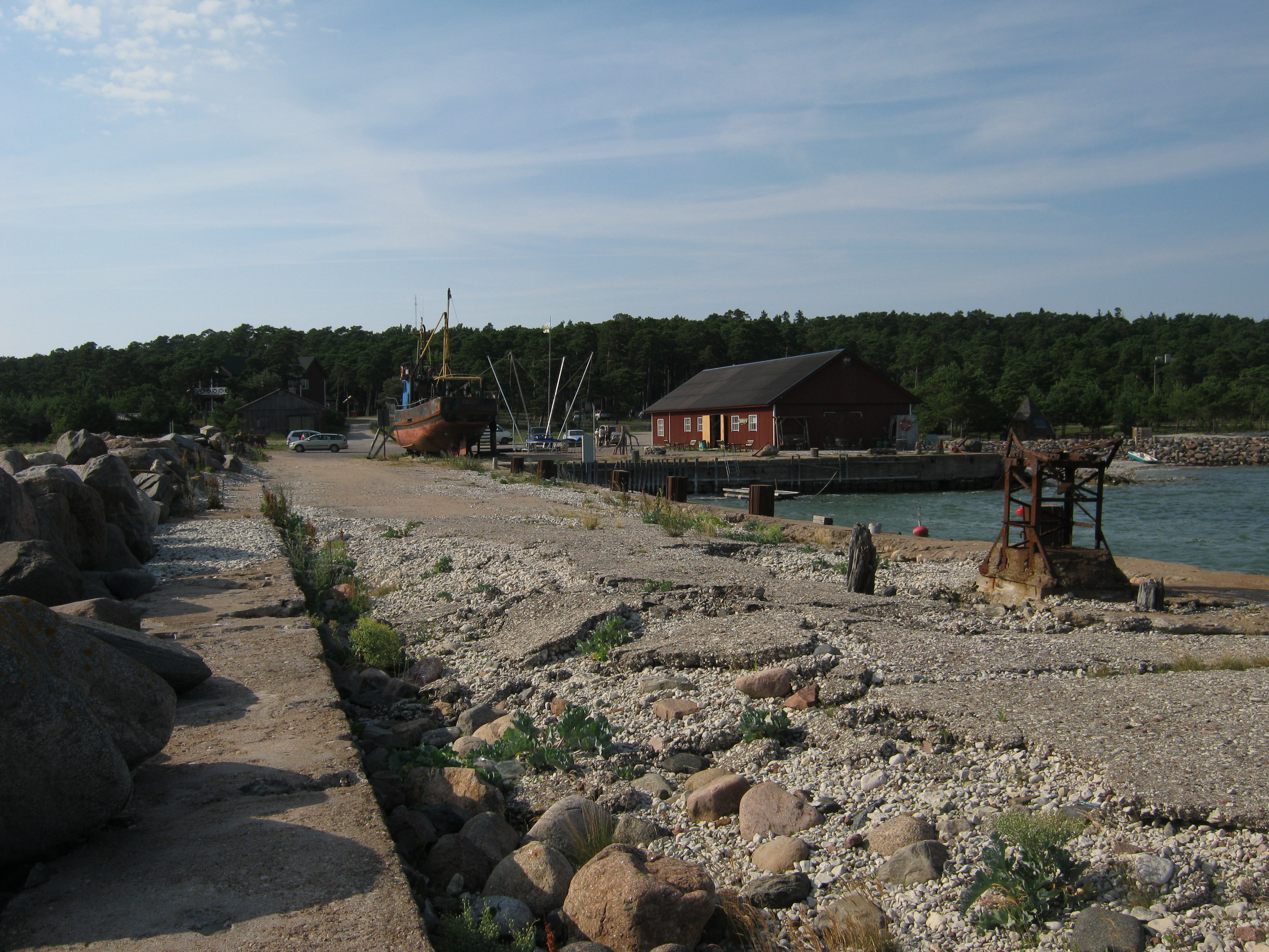 Harbour of Kalana on Hiiumaa Island in Kõpu peninsula, Kõrgessaare parish